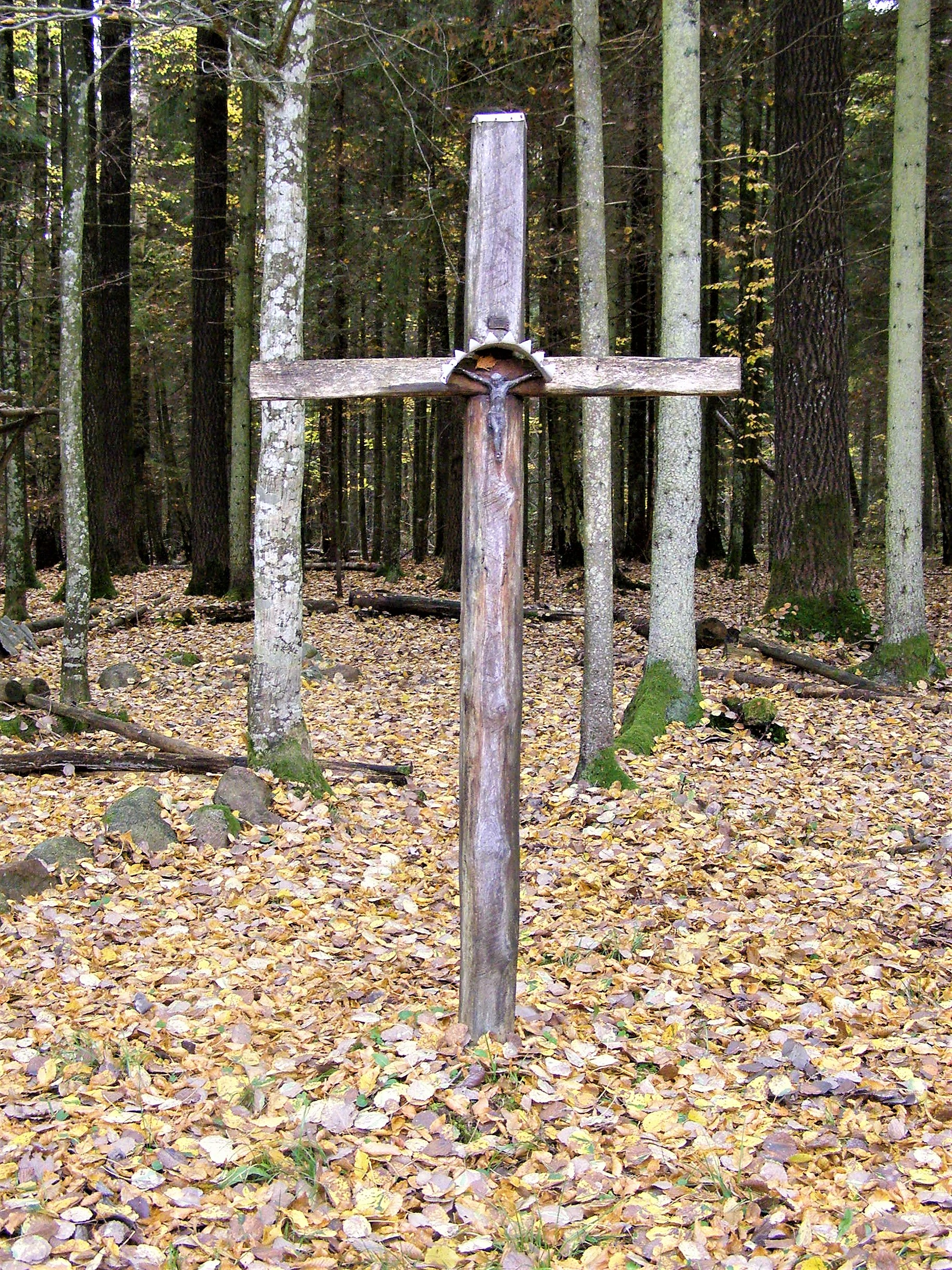 Didieji Mostaičiai monumental cross to remind partisans, Plungė district municipality, LithuaniaLietuvių: Monumentalus kryžius partizanams atminti Didžiųjų Mostaičių kaimo Peklinės miške, Plungės rajono savivaldybė, Lietuva